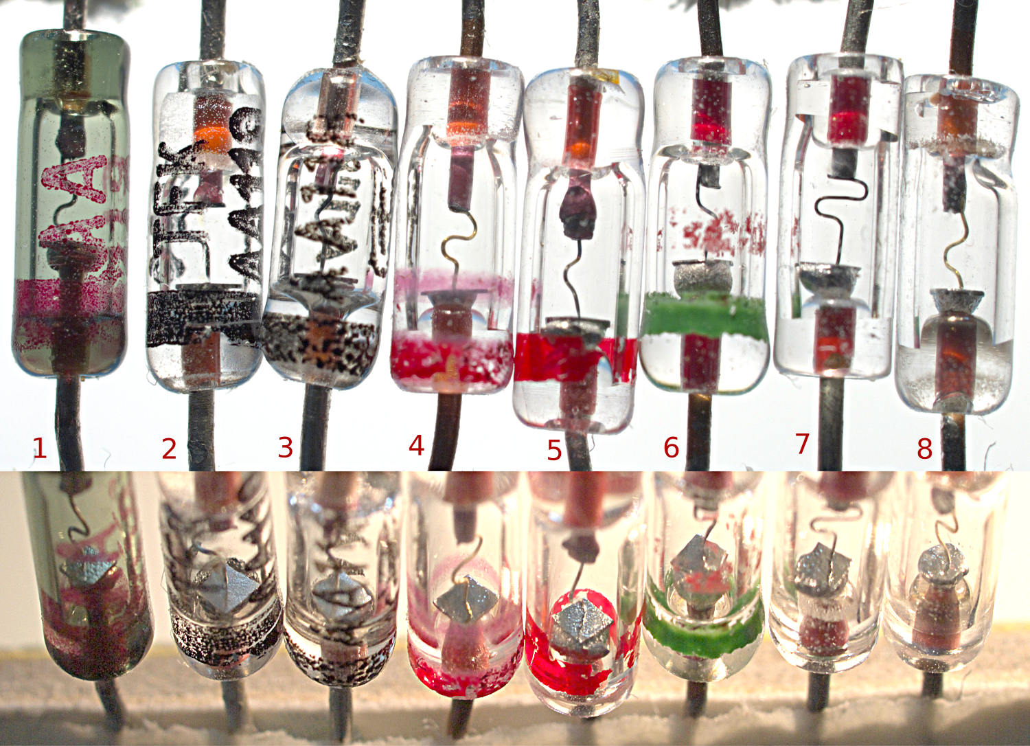 Collection of Germanium Pin Contact Diodes of the 1960's / 1970's 1: AA 119, Manuf. unknown (Valvo?) 2: AA 119, Manuf. TELEFUNKEN 3: AA 118, Manuf. SIEMENS 4: ???, Red-Violet, Manuf. unknown 5: ???, Red, Manuf. unknown 6: ???, Green-Violet, Manuf. unknown 7: Offspec 1 8: Offspec 2 See manufacturing differences: The Germanium chip is always solded to the contact wire (Kathode). The thin anode wire is bend one or two times. The anode wire is bonded to the external contact wire flat face at 2, 3, 4, 7 is bonded to the external contact wire at side at 1, 5, 6, 8 Shape of the glass housing is different for each. Color of contact wires differ. None if the diodes was manufactured on the same machine.